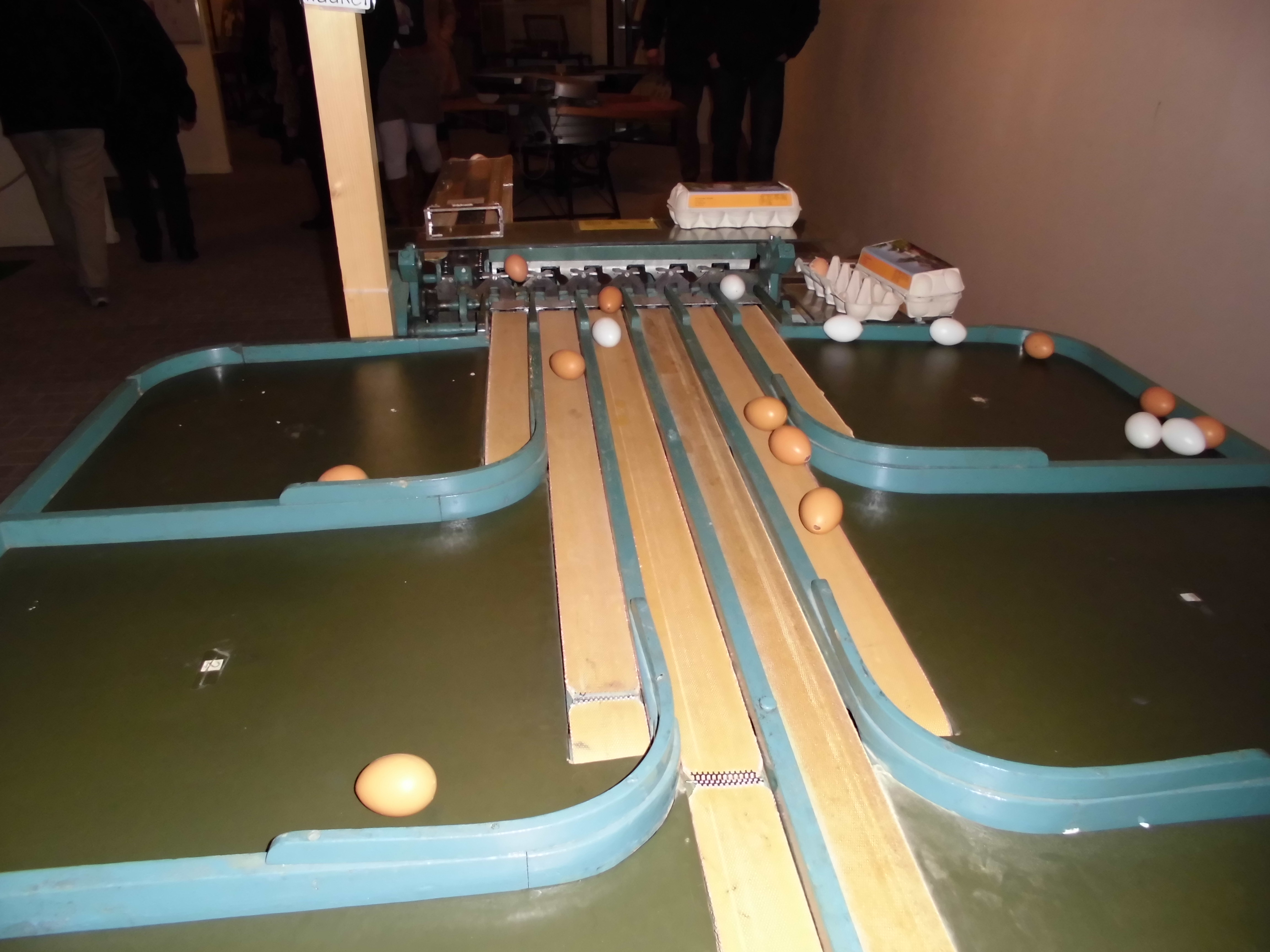 Egg sorting machine MOBA type 4 of 1948, capacity 3000 eggs per hour. Picture taken at the Pluimveemuseum (Poultry museum) at Barneveld NL